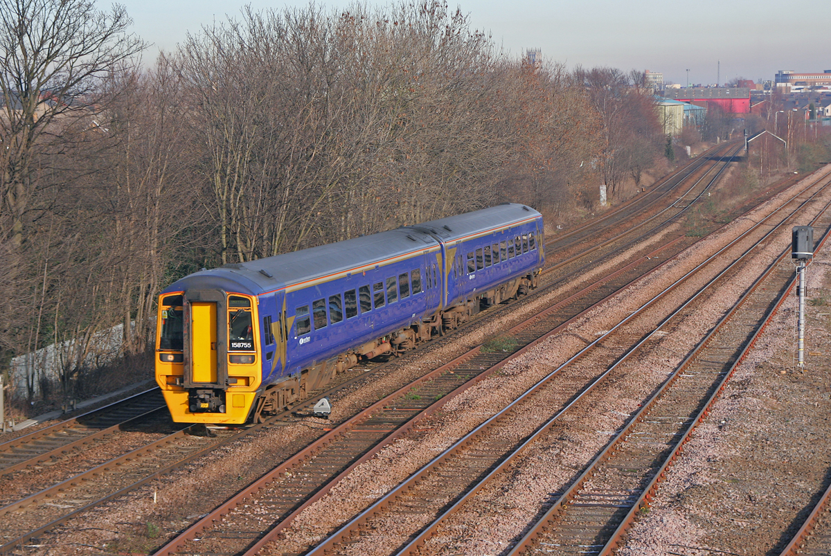 Passenger Train at Hexthorpe